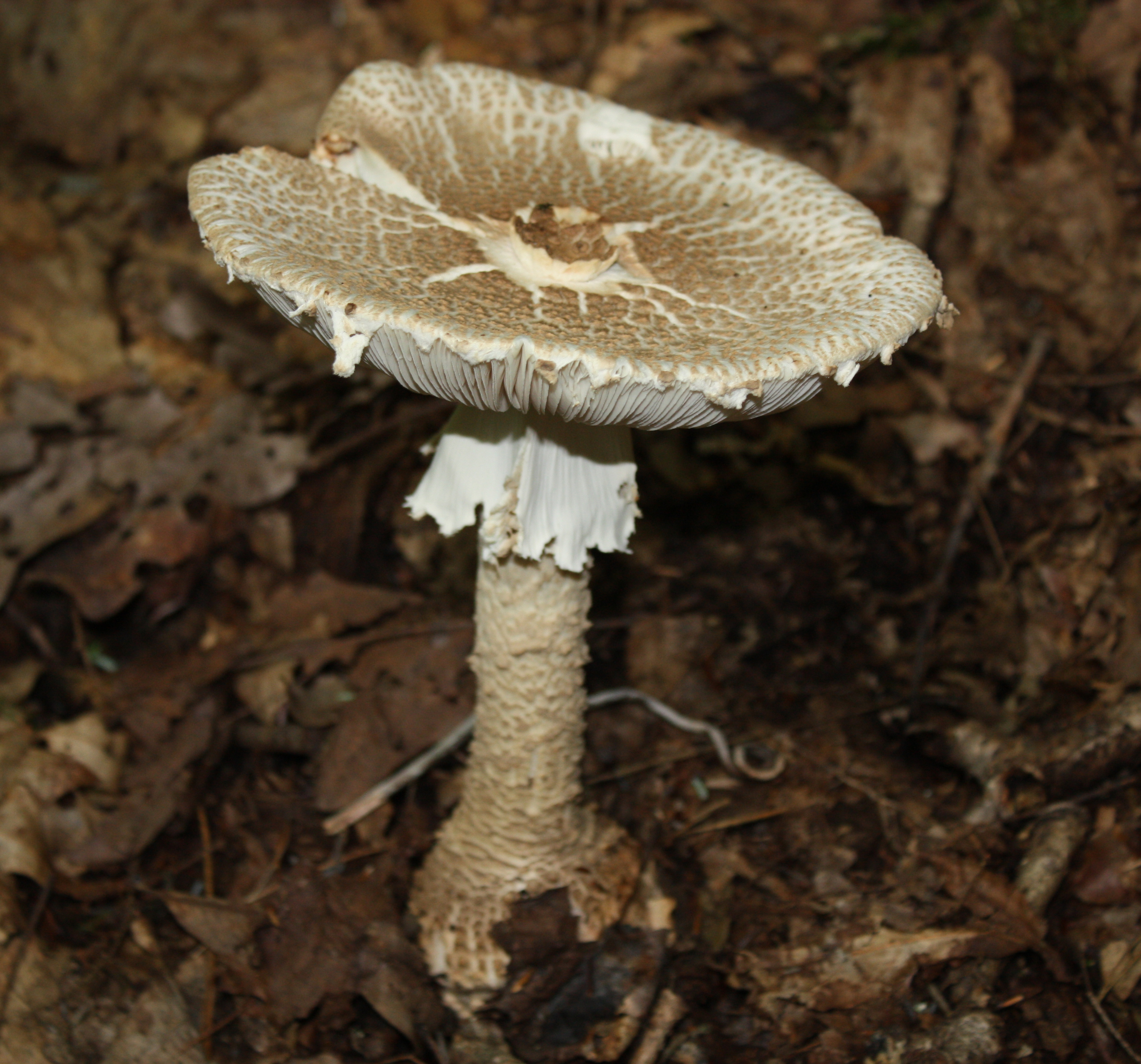 The mushroom Amanita atkinsoniana Coker. Specimen photographed in Babcock State Park, Fayette Co., West Virginia, USA.